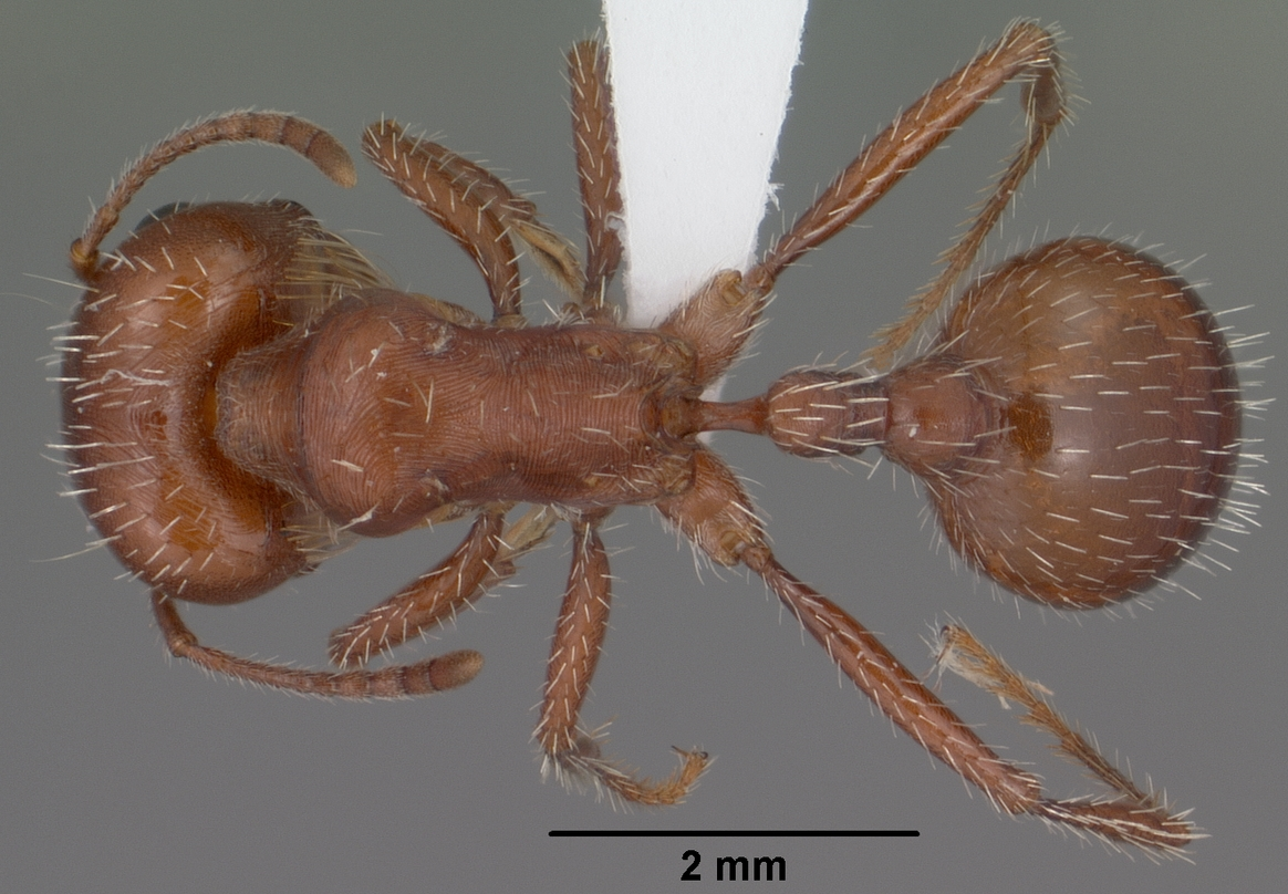 Dorsal view of ant Pogonomyrmex desertorum specimen casent0000258.